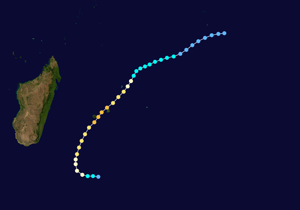 Cyclone Hollanda (1994) track. Uses the color scheme from the Saffir-Simpson Hurricane Scale.